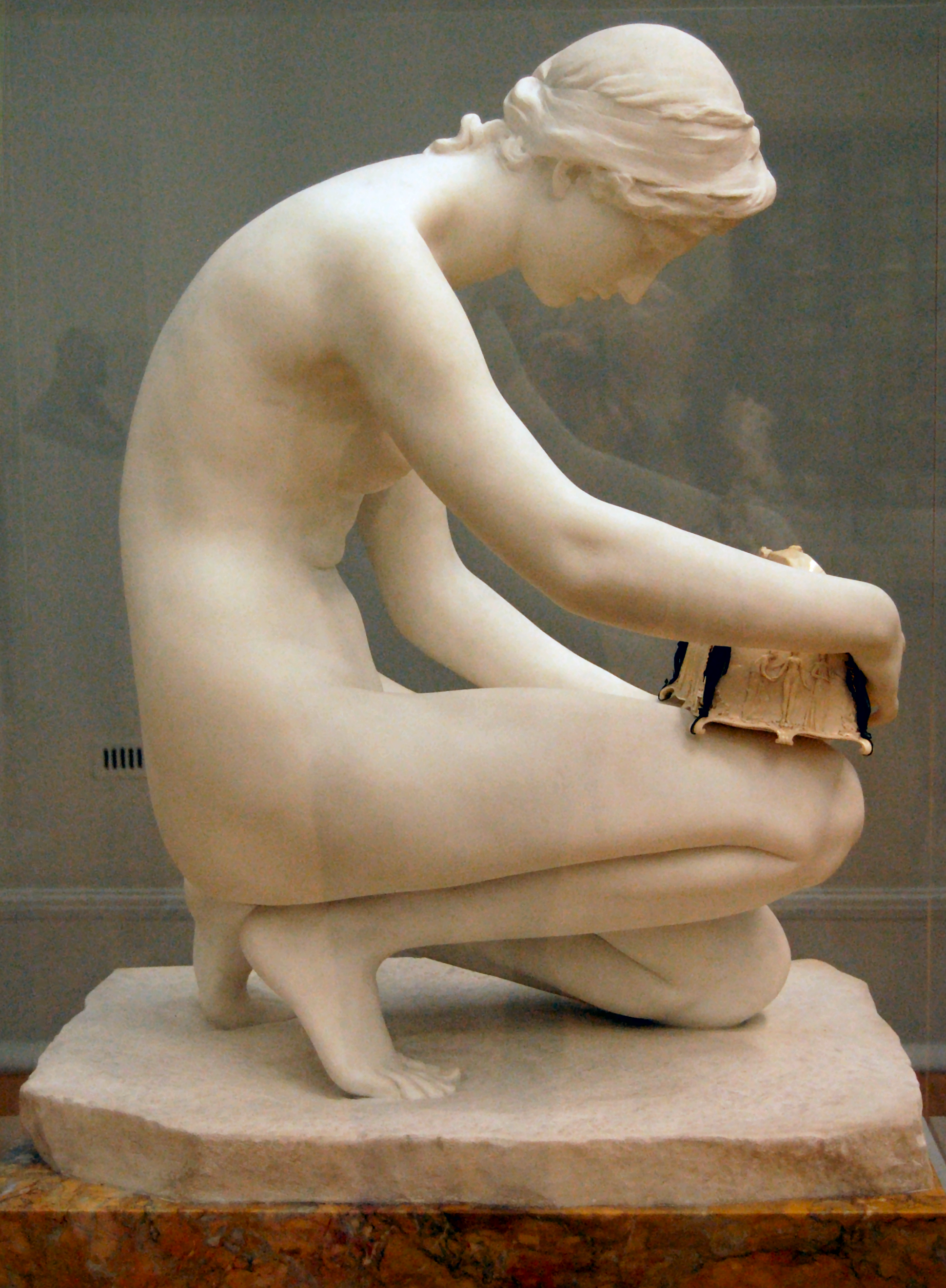 Modern photo of "Pandora" by Harry Bates (sculptor). Owing to the difficulties of shooting handheld in artificial light various tweaks and colour/contrast corrections have been performed, and the overall image has been darkened to emphasise detail in the figure. A version of this photo has appeared on Flickr under my username Ketrin1407.